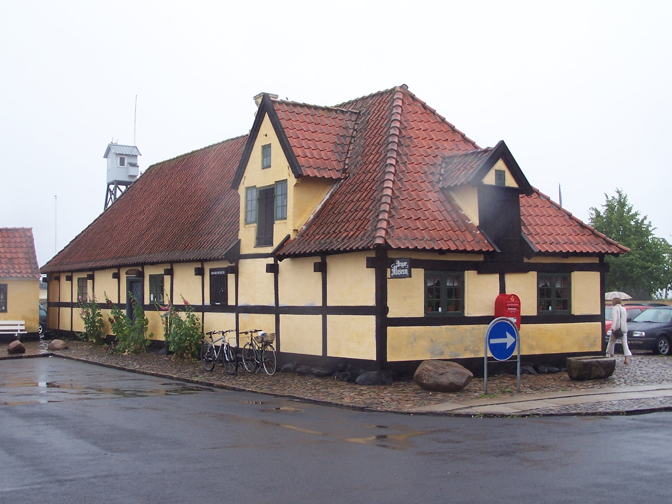 Dragør musem.